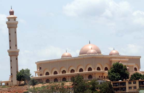 Mosque within Mengo in Kampala town.